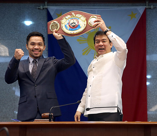 Senate President Aquilino “Koko” Pimentel III (right) raises the World Boxing Organization (WBO) welterweight belt which Senator Manny Pacquiao brought home after winning the title from Jessie Vargas at the Thomas and Mack Center in Las Vegas, Nevada, last November 5. Pacquiao said he is donating his belt to the Senate to inspire everybody.